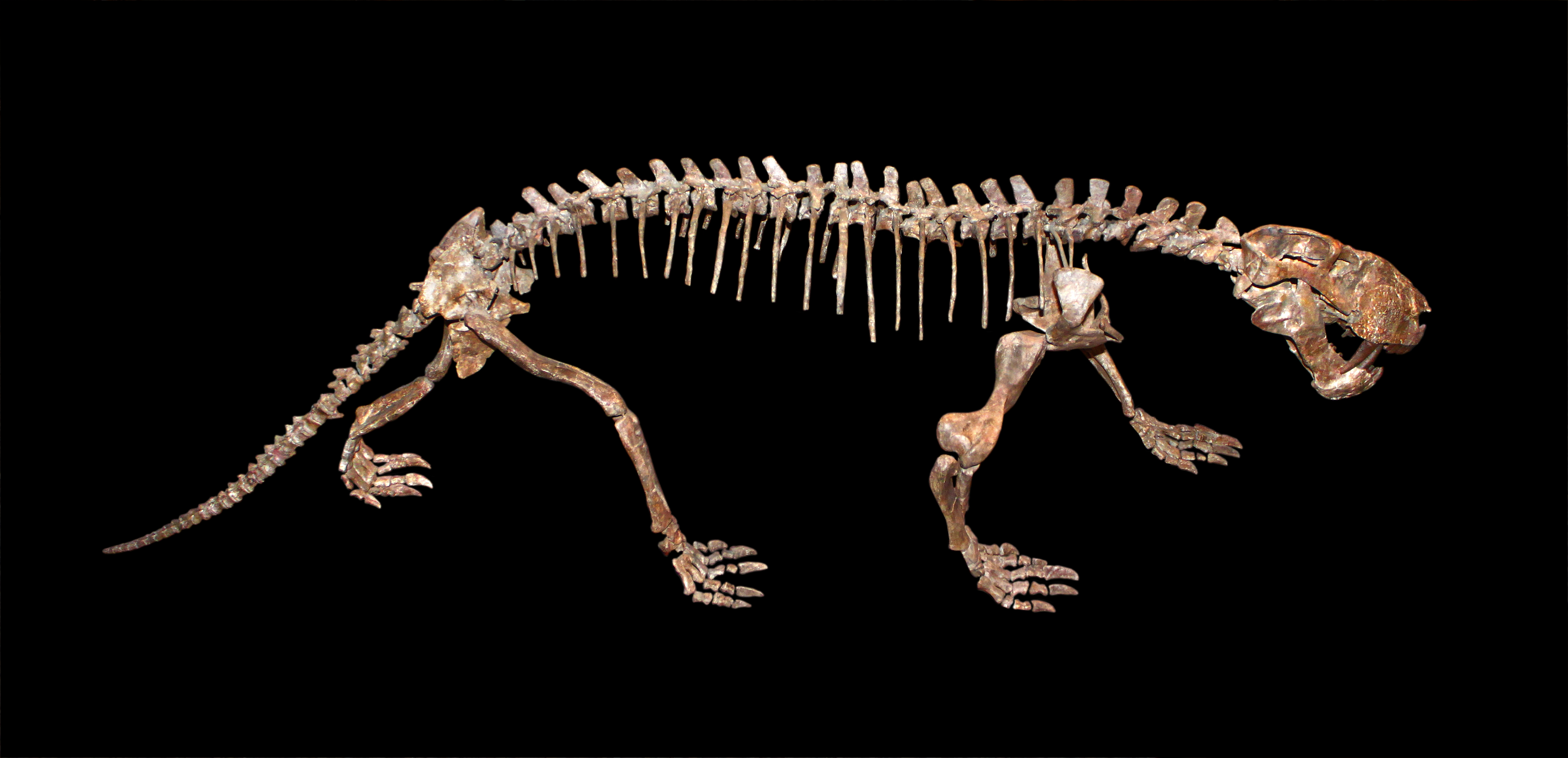 Sauroctonus parringtoni, Gorgonopsidae, Replica; Upper Permian (Wuchiapingian), Ruhuhu Valley, Tanzania; Staatliches Museum für Naturkunde Karlsruhe, Germany.